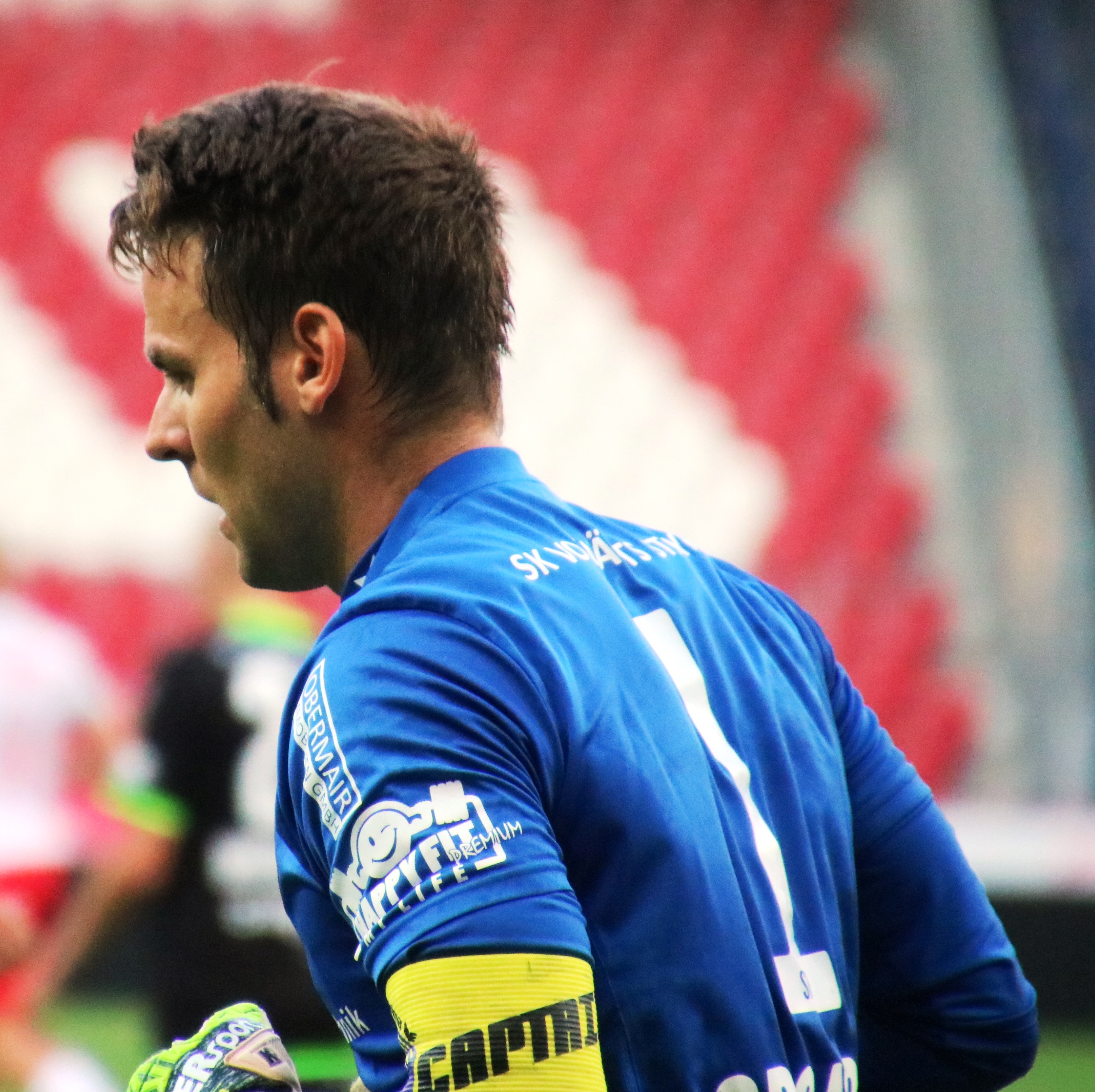 2nd league leaguematch 2nd round